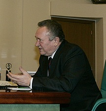 Volgograd. Governor of Volgograd Oblast Nikolay Maksyuta.